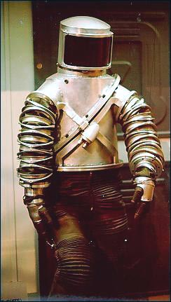 Mark I Extravehicular and Lunar Surface Suit (ELSS) space suit.